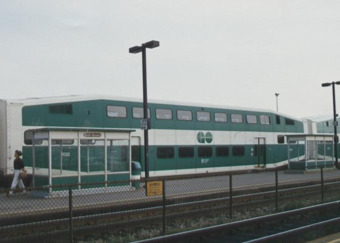 Go Transit Bi-Level-Train